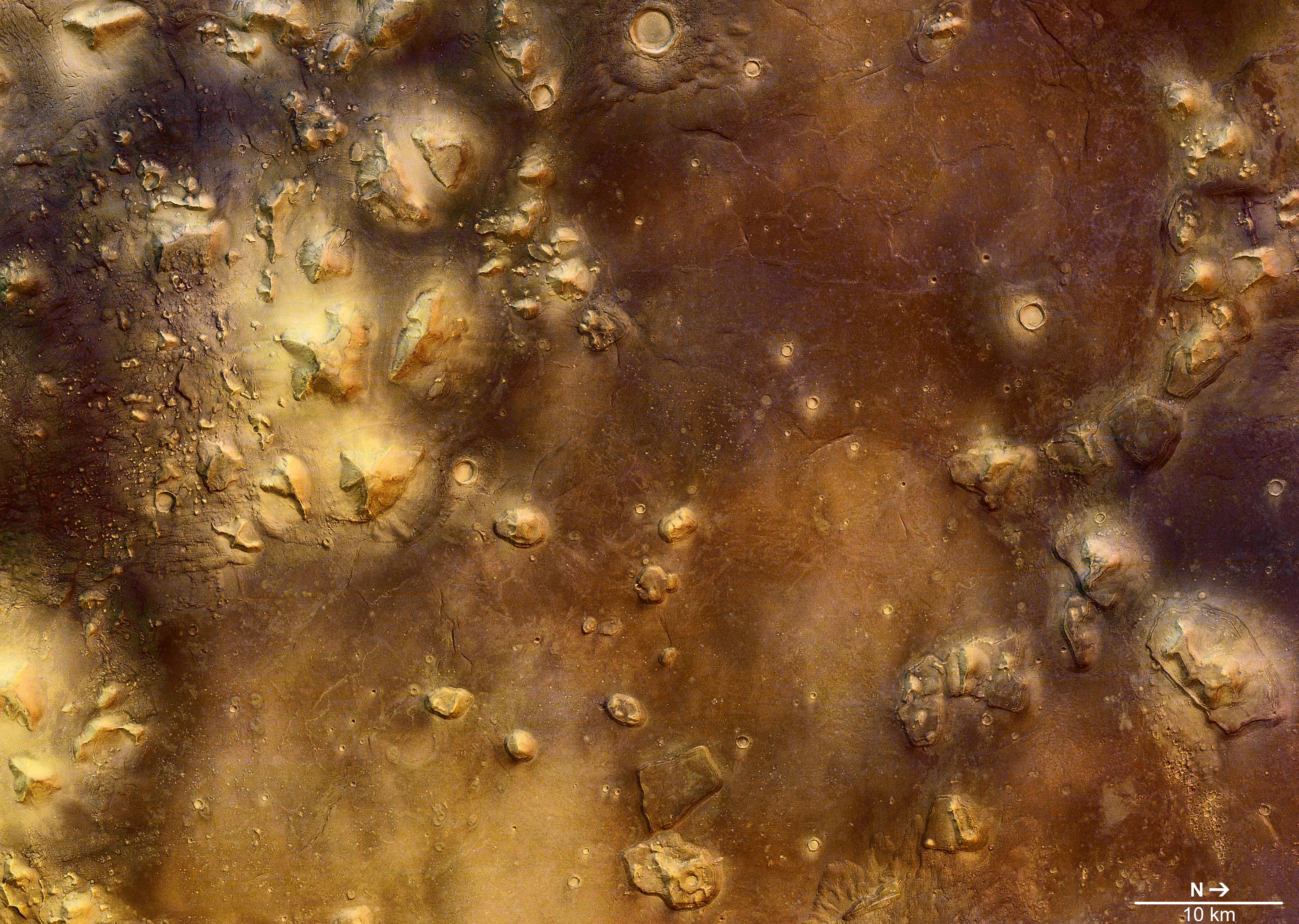 Colour image showing an overhead view of the Cydonia region. The image has a ground resolution of approximately 13.7 metres per pixel. Cydonia lies at approximately 40.75° North and 350.54° East.